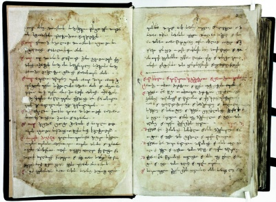 "Karabadini" - the 15th century Georgian medical Almanac by Eristavi (High feudal title) Zaza Panaskerteli-Tsitsishvili.